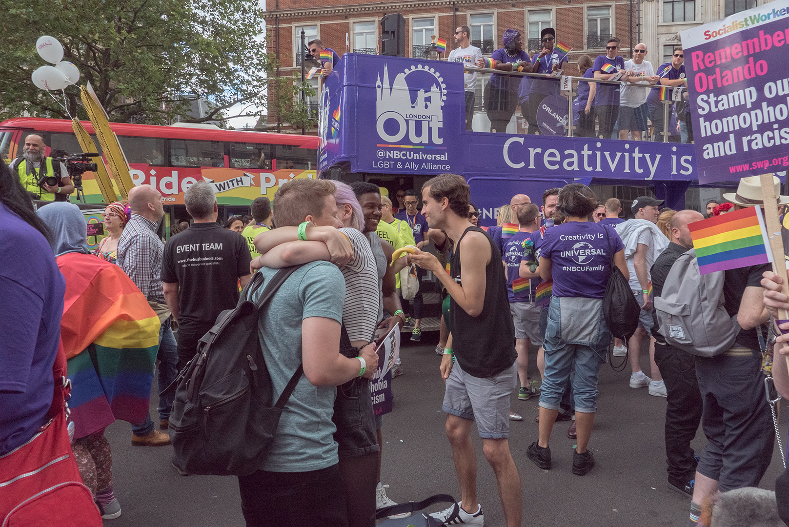 Attendees at Pride in London